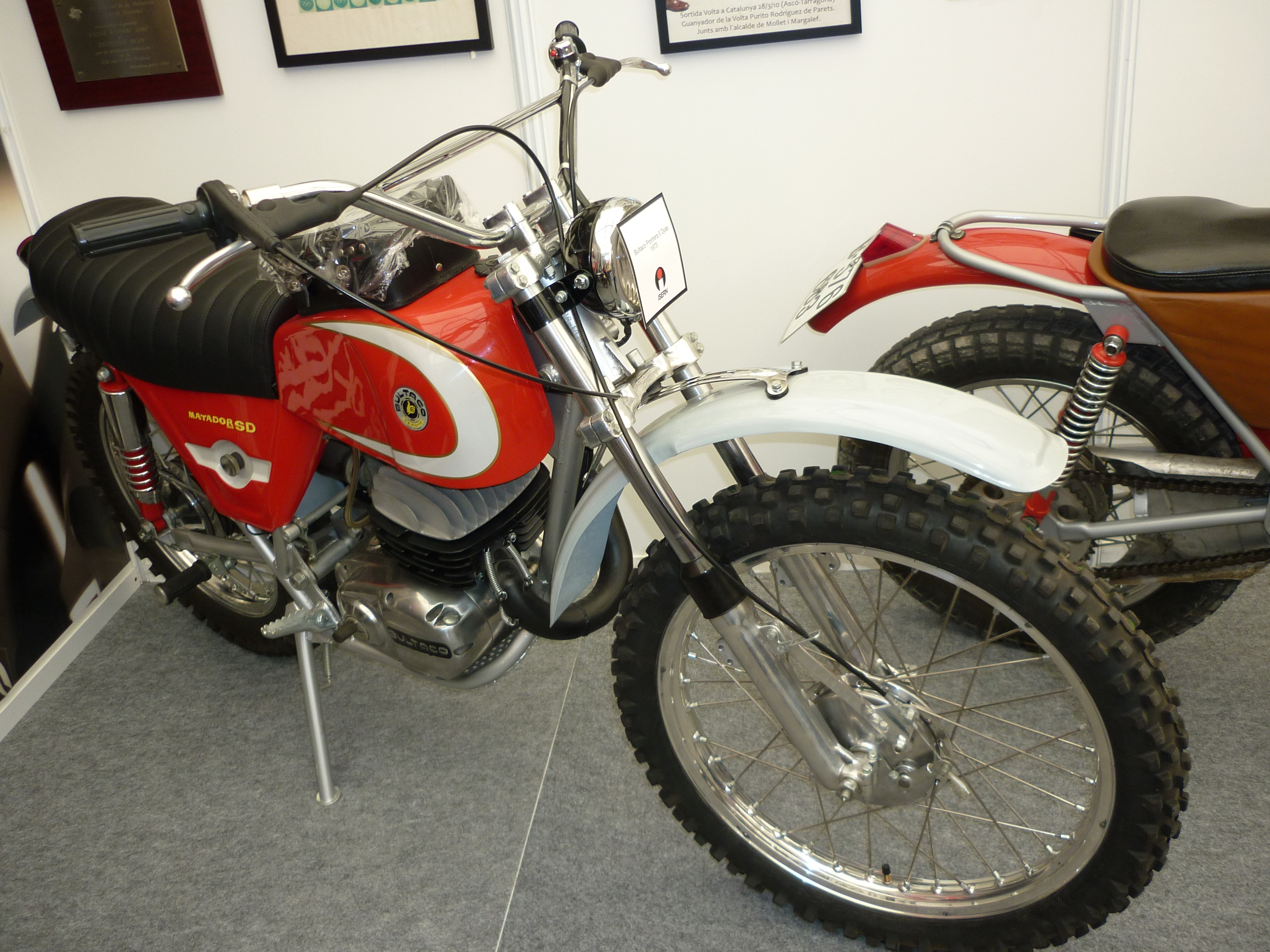 Bultaco Matador 250cc MK5 "Six Days" (1973-1975). Exposed by Josep Isern at the FIMO (Mollet del Vallès, Catalonia, 1 to 3 October 2010)